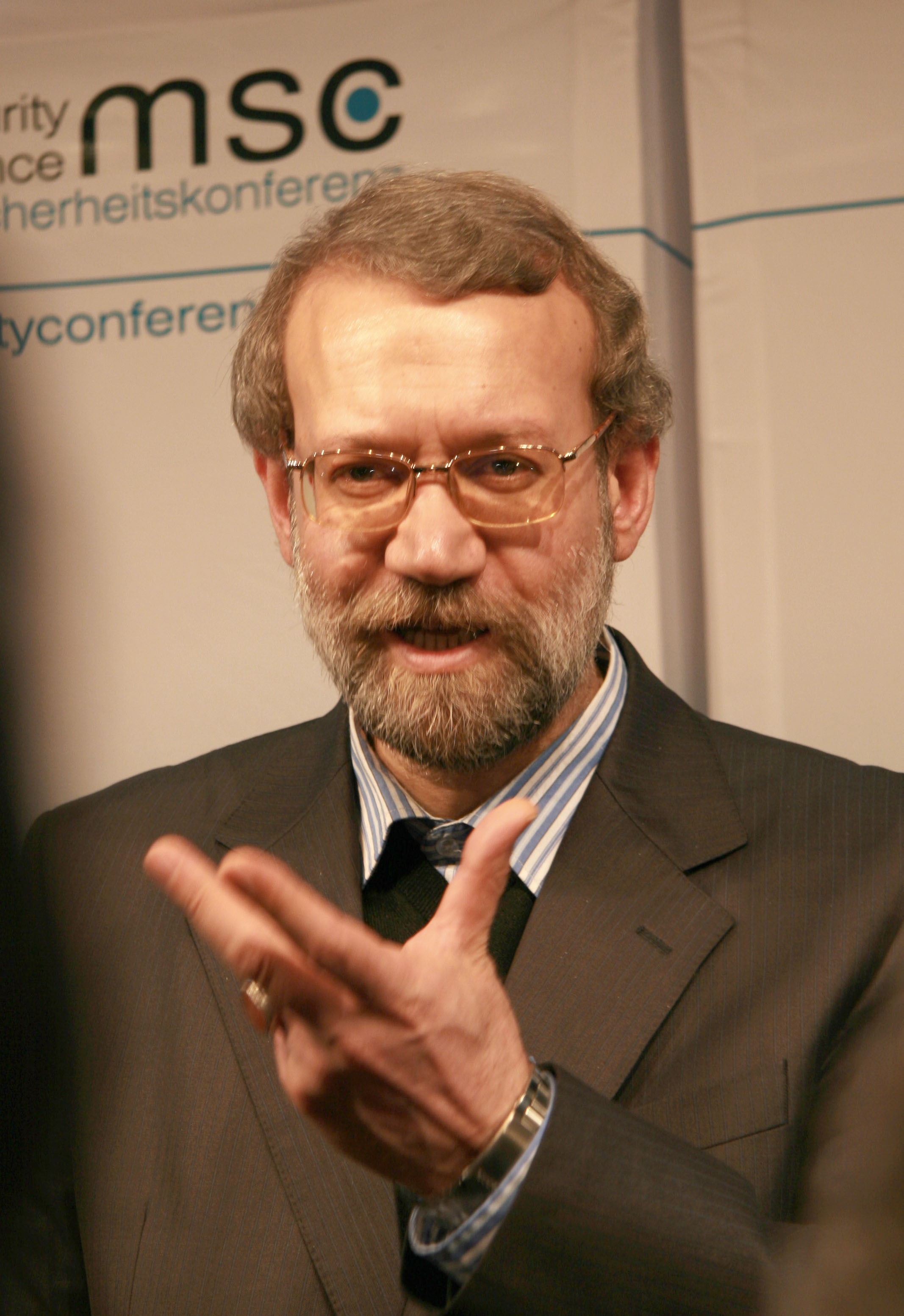 45th Munich Security Conference 2009: Dr. Ali A. Larijani, Speaker of the Majlis of Iran, Tehran.